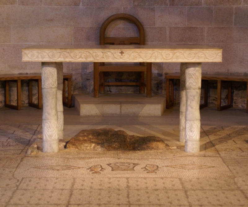 Church of the Multiplication, Tabgha, Israel - altar